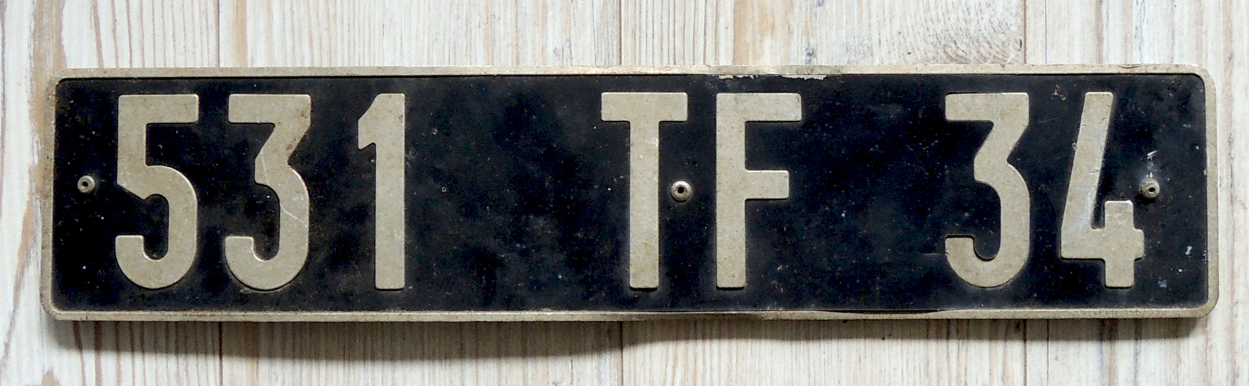 Old black French License Plate from department 34 Hérault.